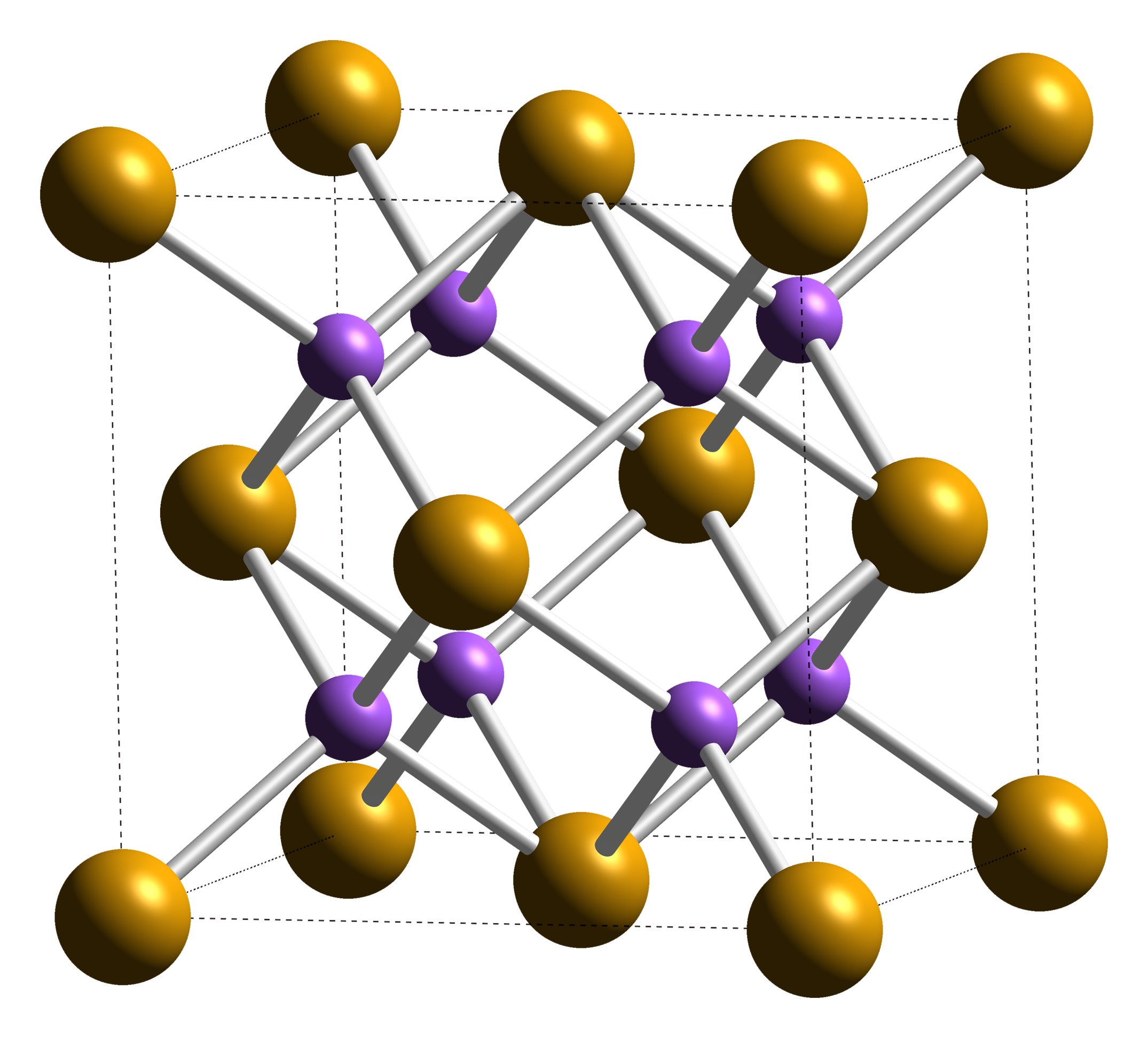 Ball-and-stick model of the unit cell of sodium selenide, Na2Se. Colour code: Sodium, Na: purple Selenium, Se: orange-brown Crystal structure from Inorg. Chem. (1992) 31, 2127–2132. Model constructed and image generated in CrystalMaker 8.2.